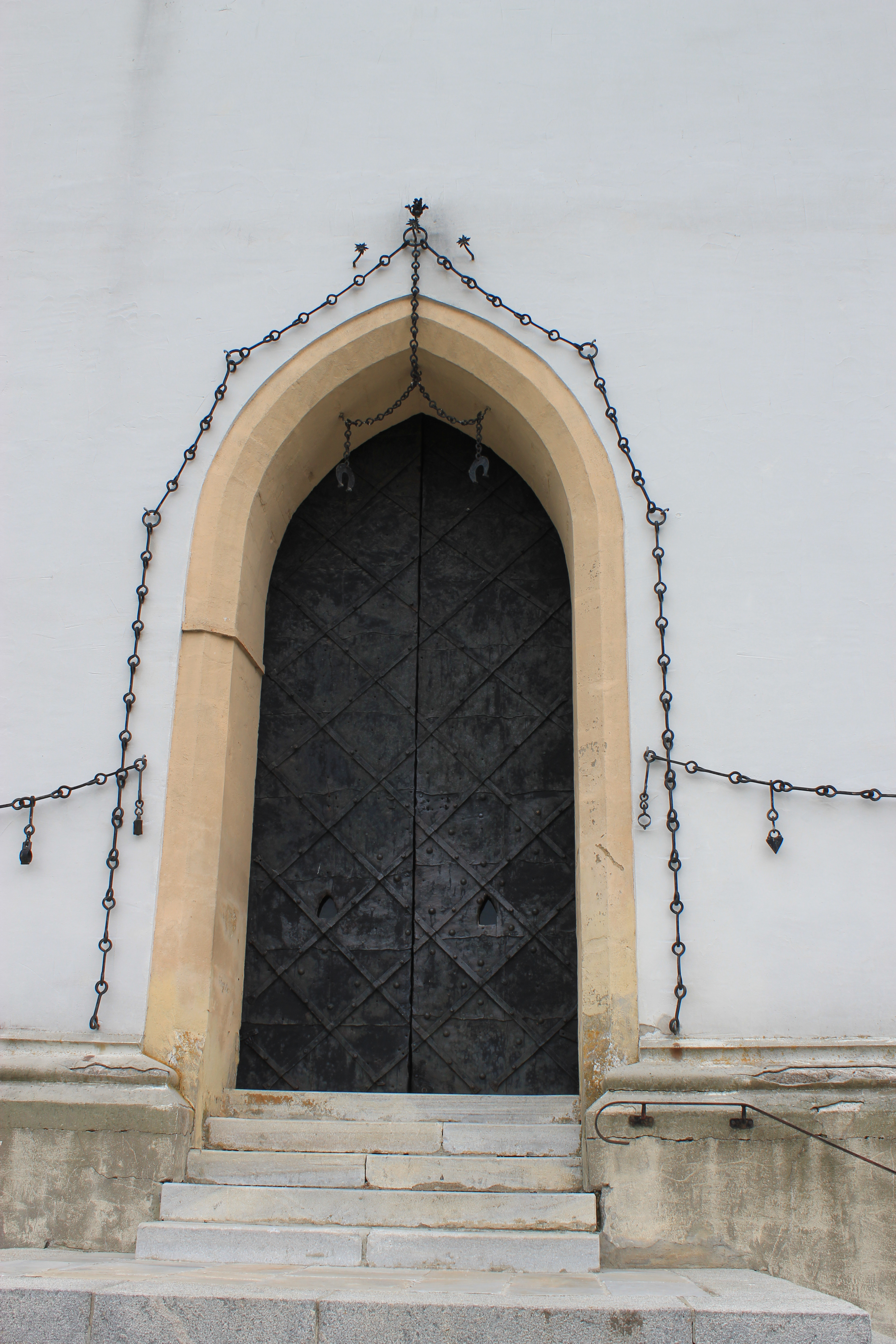 Parish church in Bad Sankt Leonhard - detail